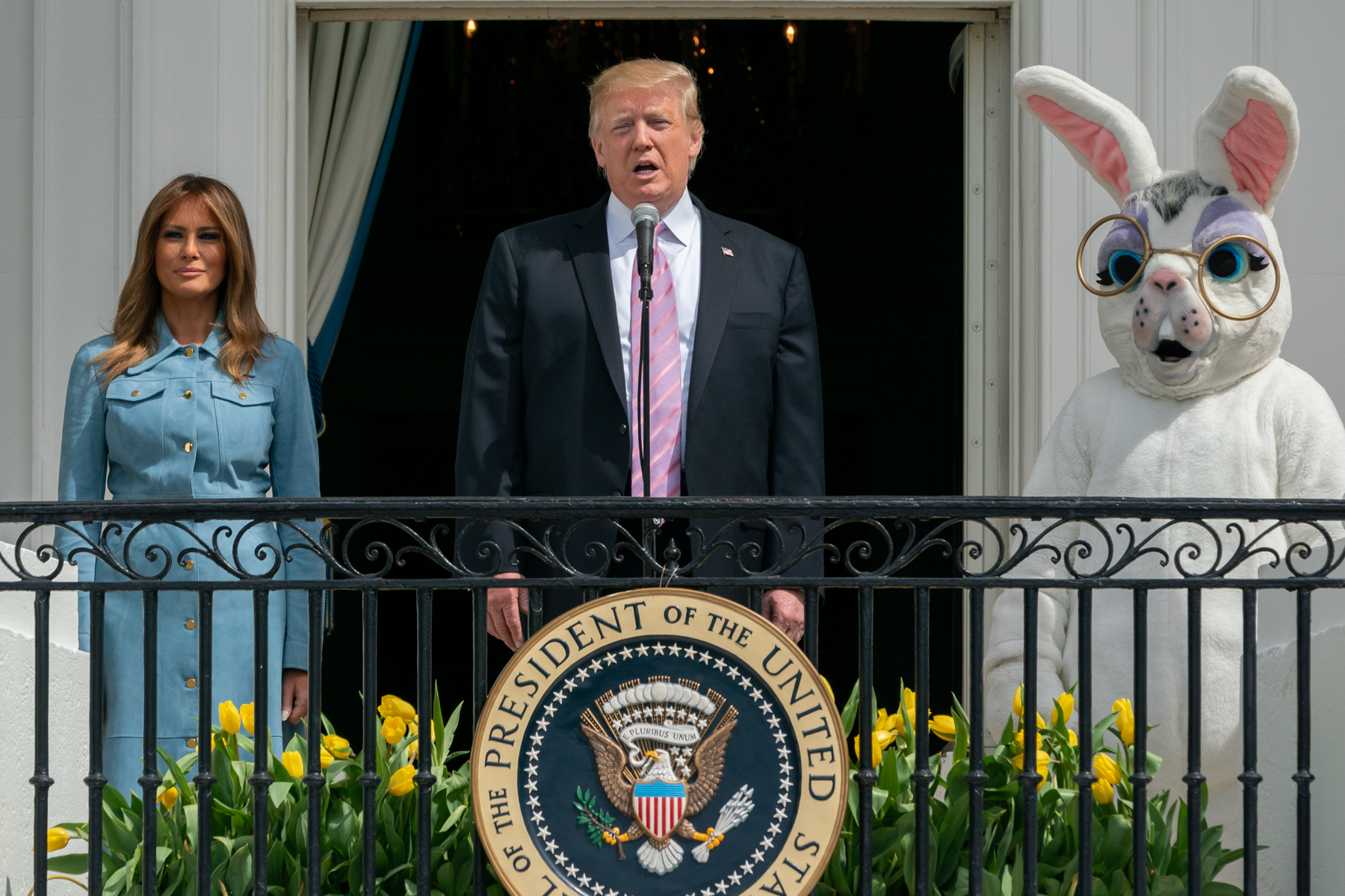 President Donald J. Trump, joined by First Lady Melania Trump, delivers remarks on the Blue Room balcony of the White House as they welcome guests Monday, April 22, 2019, to the 141st White House Easter Egg Roll. (Official White House Photo by Andrea Hanks)